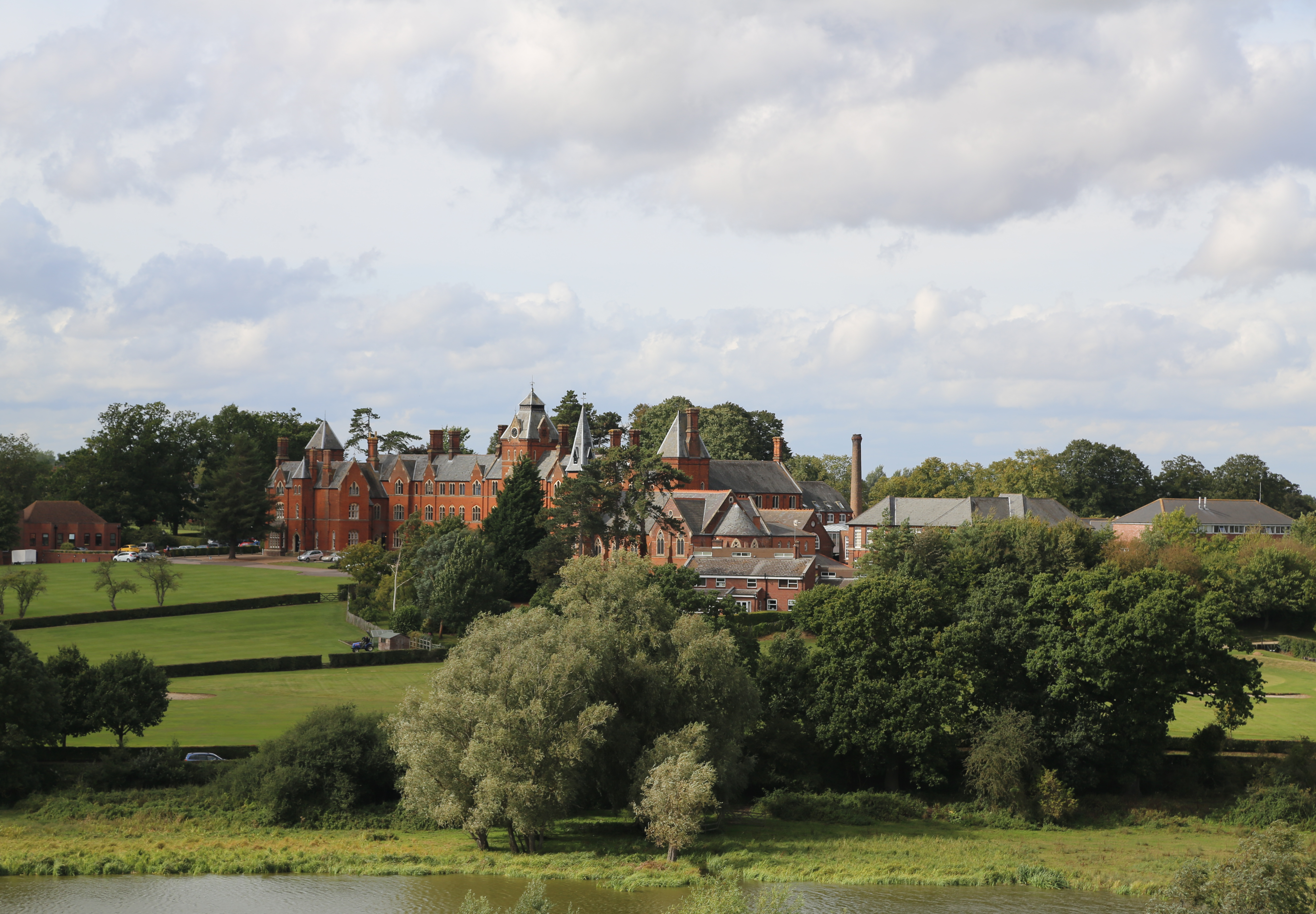 Photo of Framlingham College taken from the battlements of Framlingham Castle